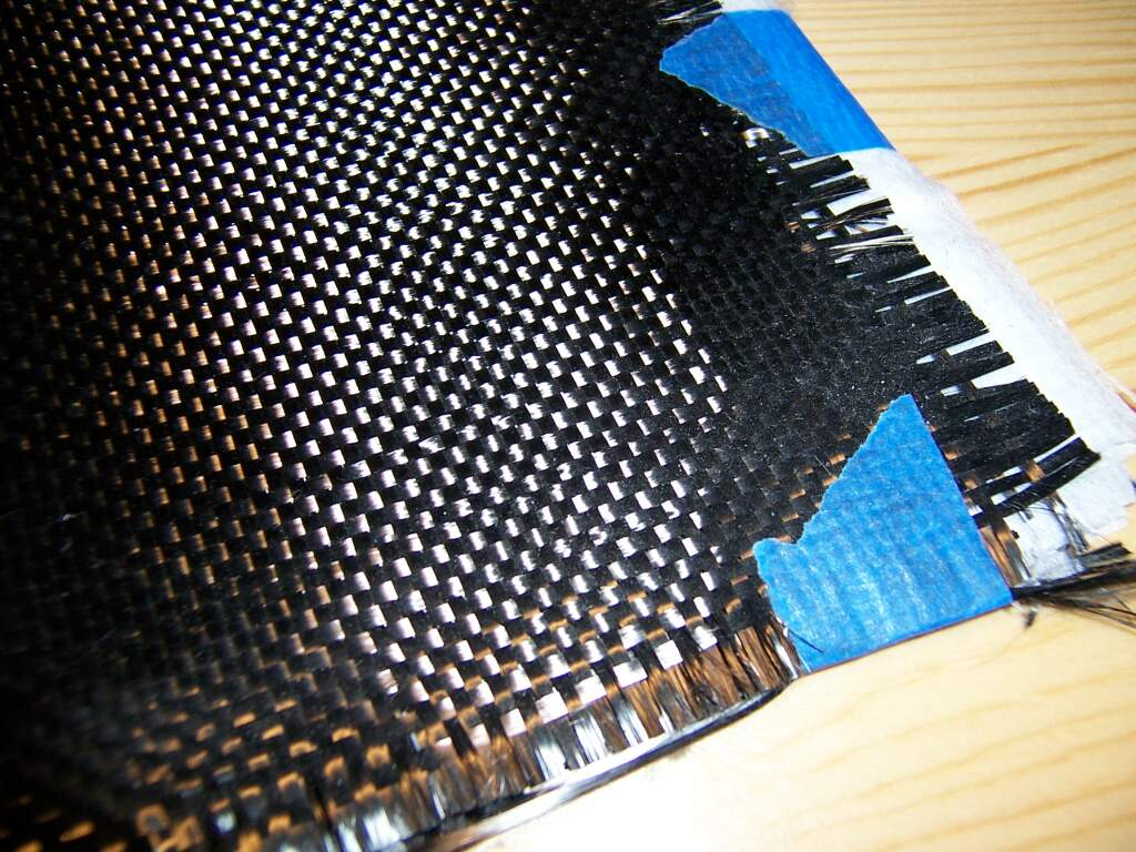 Carbon fibre